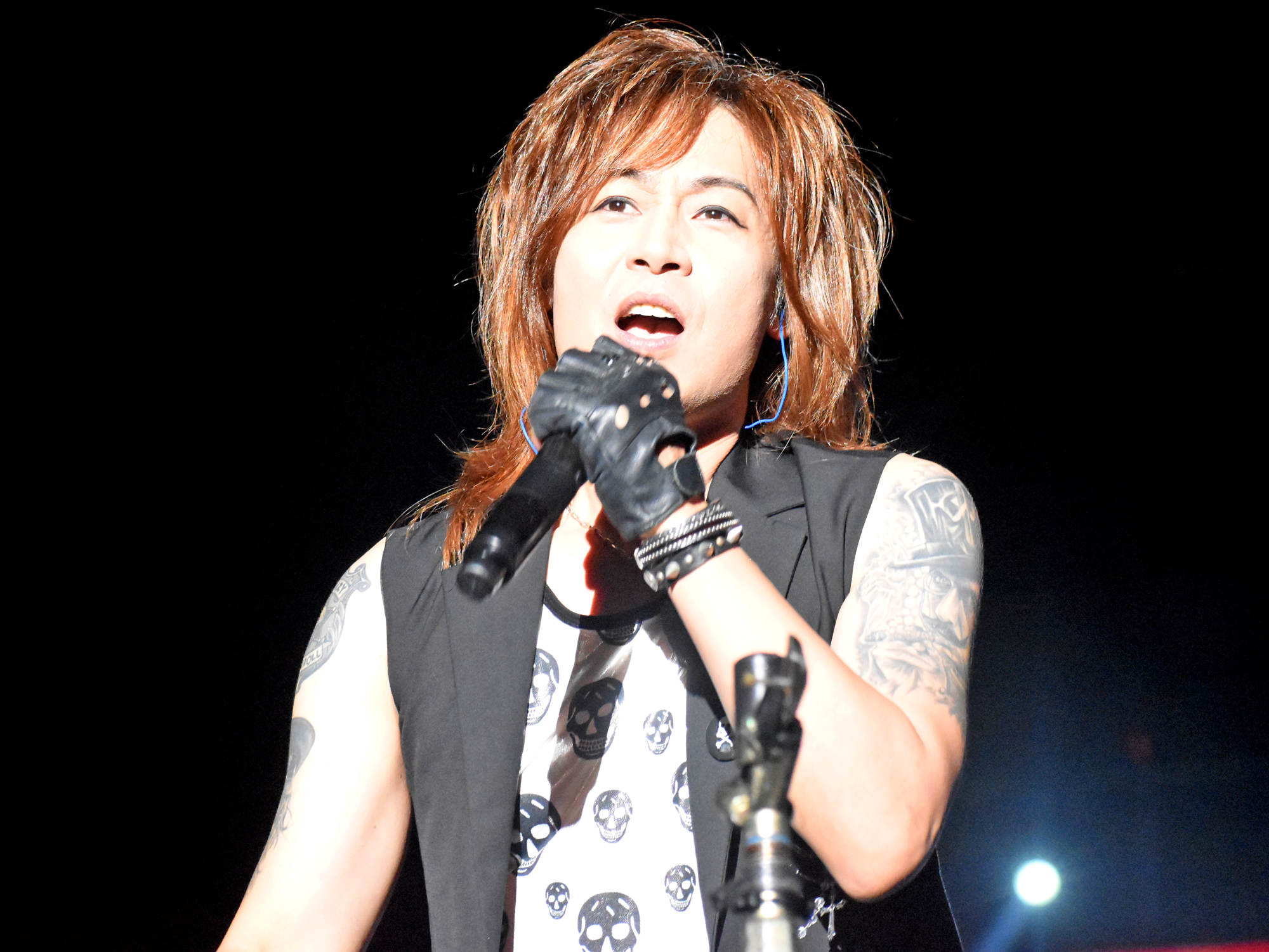 Eve at the 23rd Busan Sea Festival in Haeundae on August 3, 2018.